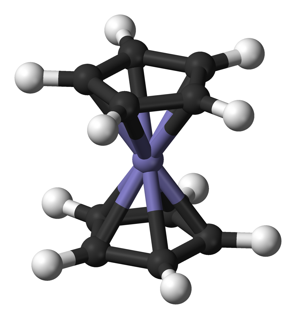 Ball-and-stick model of the ferrocene molecule